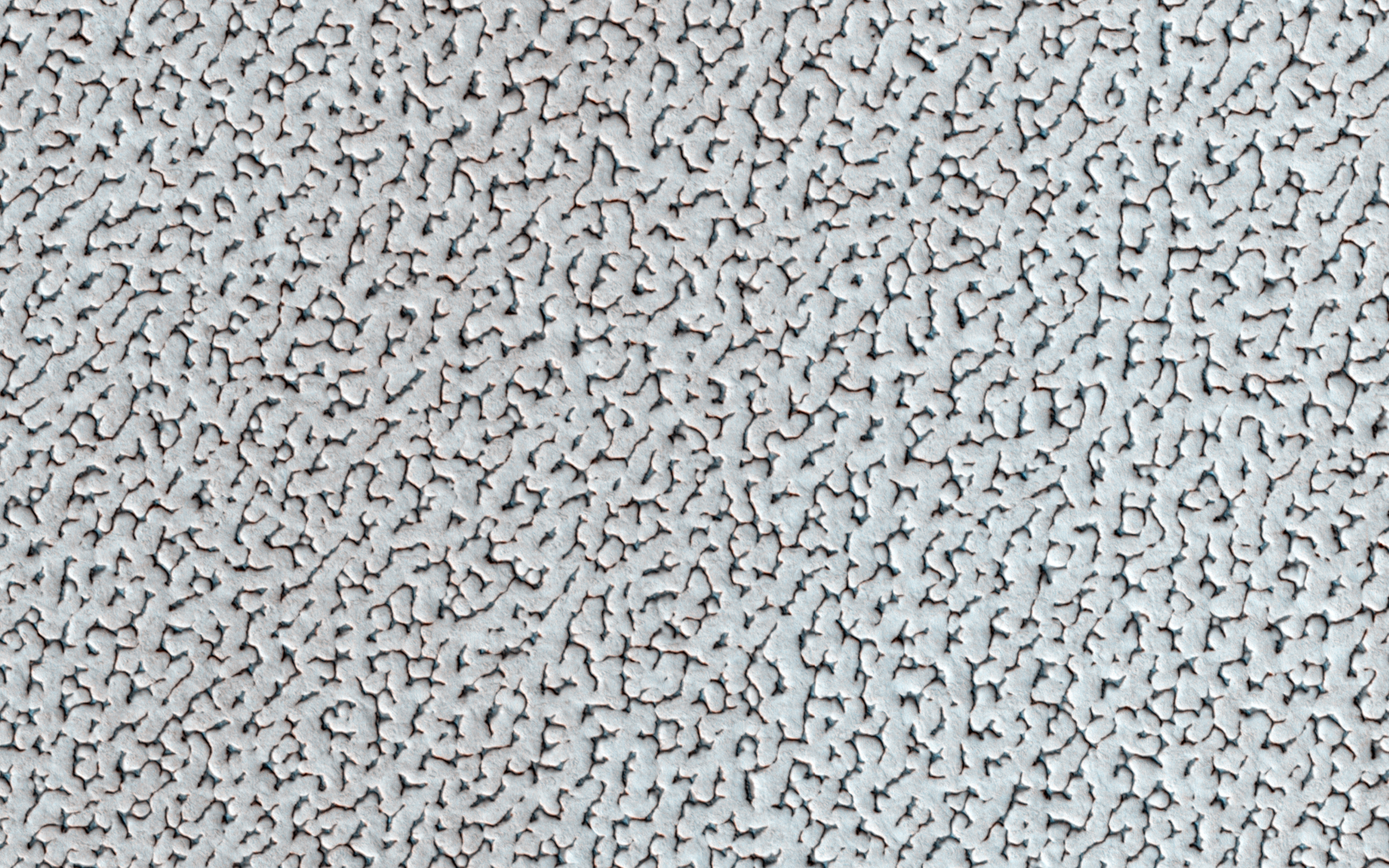 A bright ice cap of frozen water covers the North Pole of Mars. In the winter, thin coverings of carbon dioxide and water frost covers this area (86.810° N, 135.772° W) and these frosts finally disappear at the end of the Martian spring season. In this image, the winter frosts are about to disappear and we can begin to see the surface features of the ice. The ice cap would be a bad place to get lost: it's one of the smoothest, flattest places on Mars so there are no landmarks visible. The surface features are gently rolling hummocks (or small mounds) and hollows about a metre in height and about 20 metres across. This monotonous landscape continues for hundreds of kilometres in every direction with this same repeating pattern. Scientists do not know what makes this pattern so uniform over such large distances; we acquire HiRISE images like this one to look for small differences in these icy features from one place to another. Understanding this surface can help us understand the current climate and meteorological conditions at the North Pole of the Red Planet.